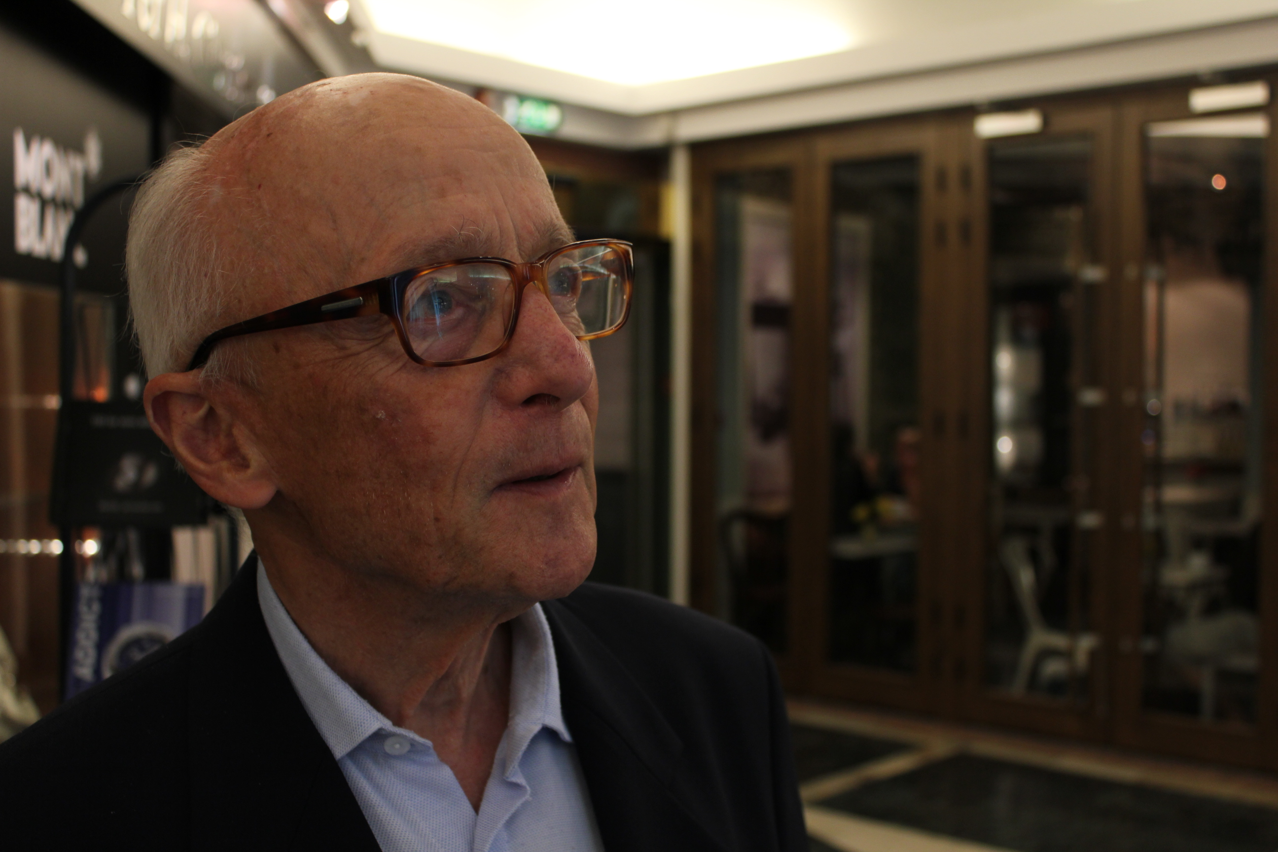 Former Norwegian Prime Minister Kåre Willoch at Paleet in Oslo.